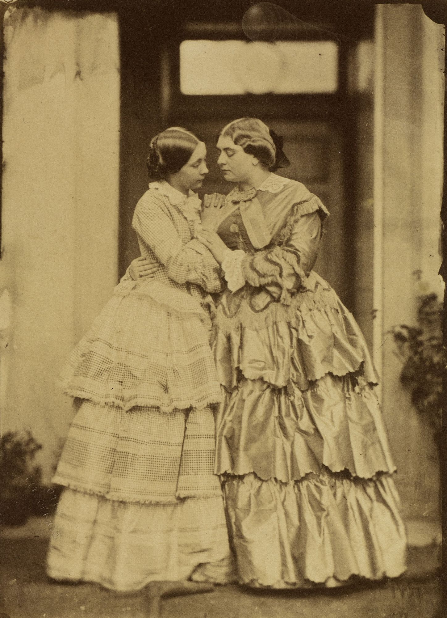 Photograph of a double portrait of Princess Mary Adelaide of Cambridge (1833-97) and Lady Katherine Coke (d. 1920), later a Woman of the Bedchamber to Queen Mary. They are facing each other. Lady Katherine Coke is standing on the left with both hands resting on the right shoulder of Princess Mary Adelaide. Princess Mary Adelaide is standing on the right with her right arm around the back of Lady Katherine Coke and her left hand placed on Lady Katherine Coke's right arm. A blindstamp with the name of the photographer appears in the lower left hand corner of the photograph.